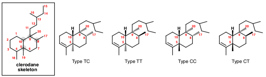 The clerodane skeleton contains 20 carbons and a decalin core. There are four classification groups that distinguish the relative stereochemistry at the decalin ring junction and between the substituents on the C-8 and C-9 carbons. The absolute stereochemistry shown describes the neo-clerodanes.